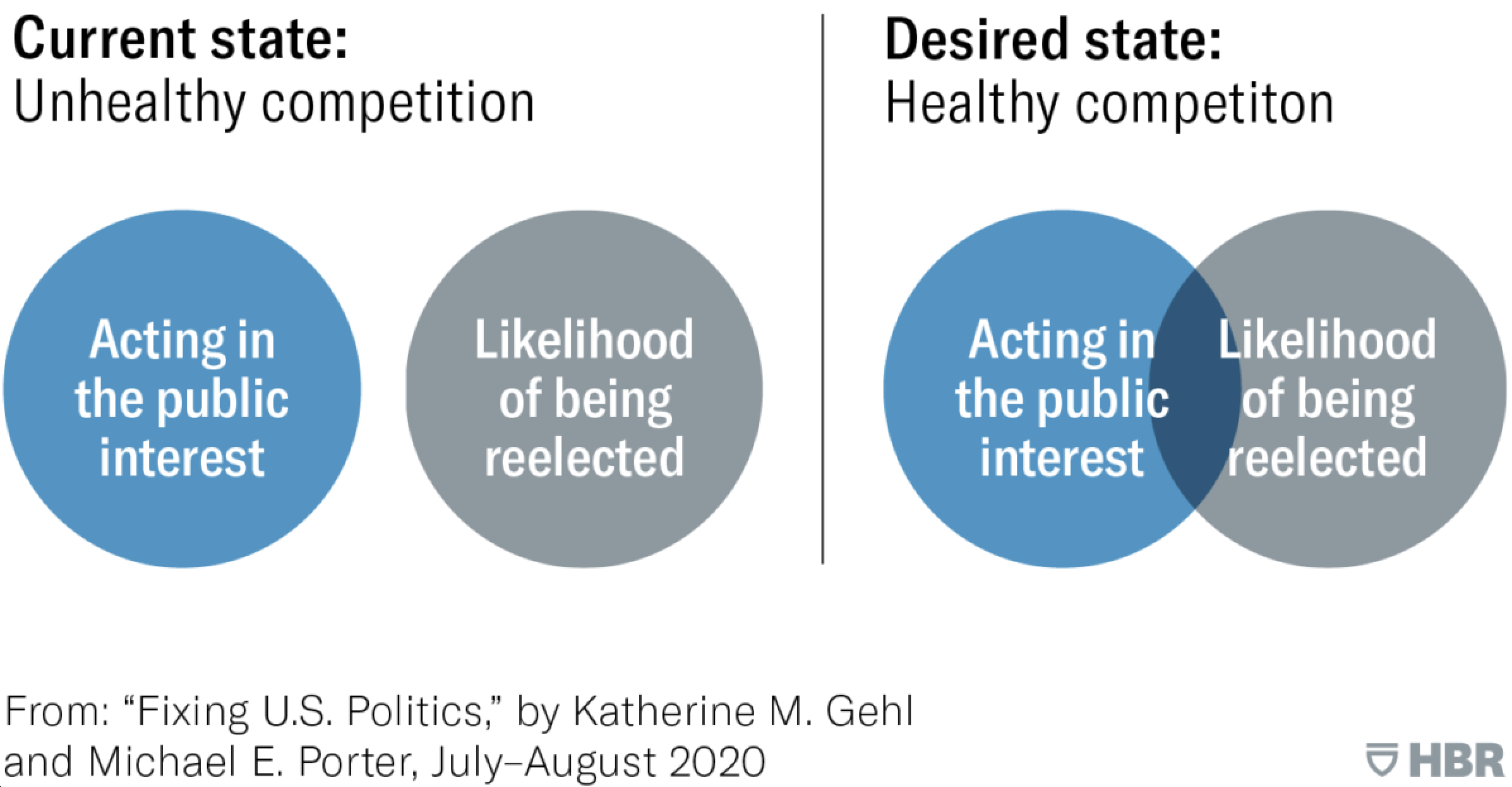 Current State of Competition versus Desired State of Competition